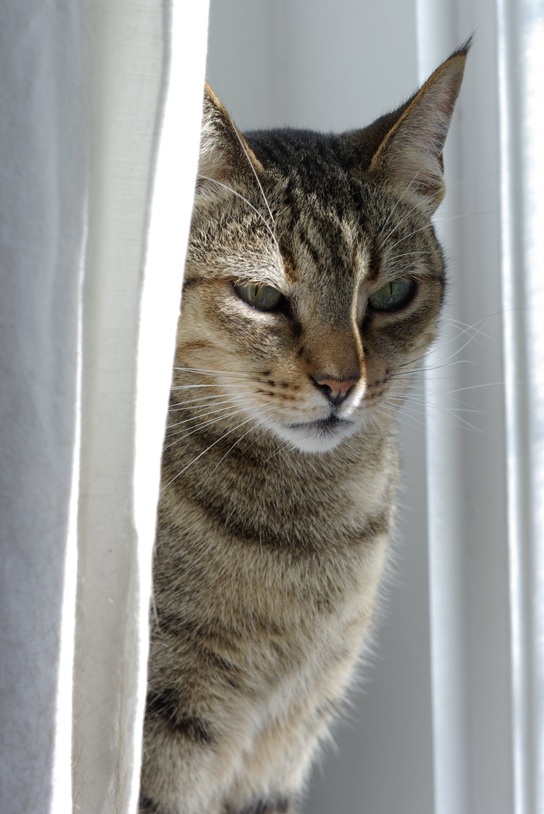 This is a photo of my cat called Cirmos (Tabby). She shows the characteristics of the Kanaani breed cat, a rare cat breed from Israel. Most typical is the tuft on the ears, a very rare thing for cats to have, but the colour, the circular stripes, the outlook and the strength are also acknowledged characteristics of the Kanaani. Not mentioned, but all photos of Kanaani-related cats show the M on the forehead. Although Cirmos is probably not a purebread Kanaani since she was adopted young as a stray cat, she has great ear tufts characteristic of this breed. I upload this photo because I have found no photos of tufted ears on the net and this one is very visibly tufted. So enjoy the tufts of Cirmos, but beware since she is a very shy cat, who prefers to hide from humans.